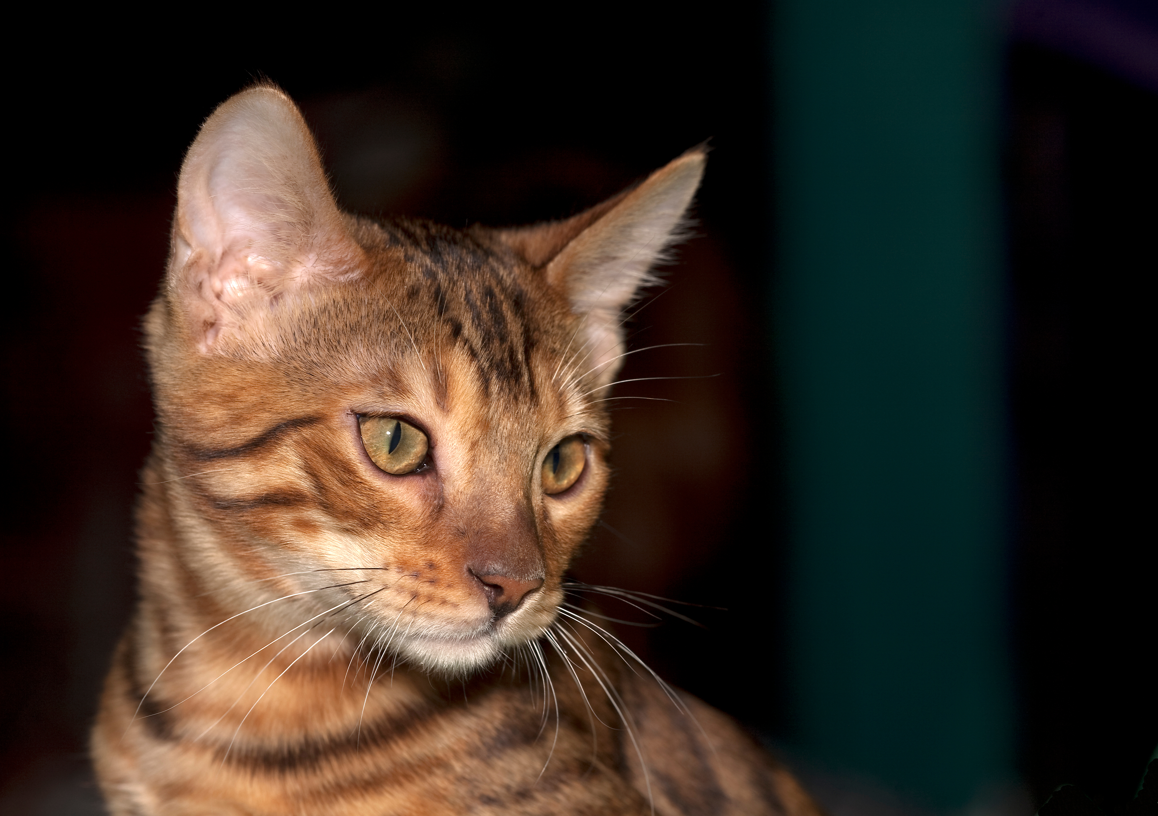 Bengal kitten.